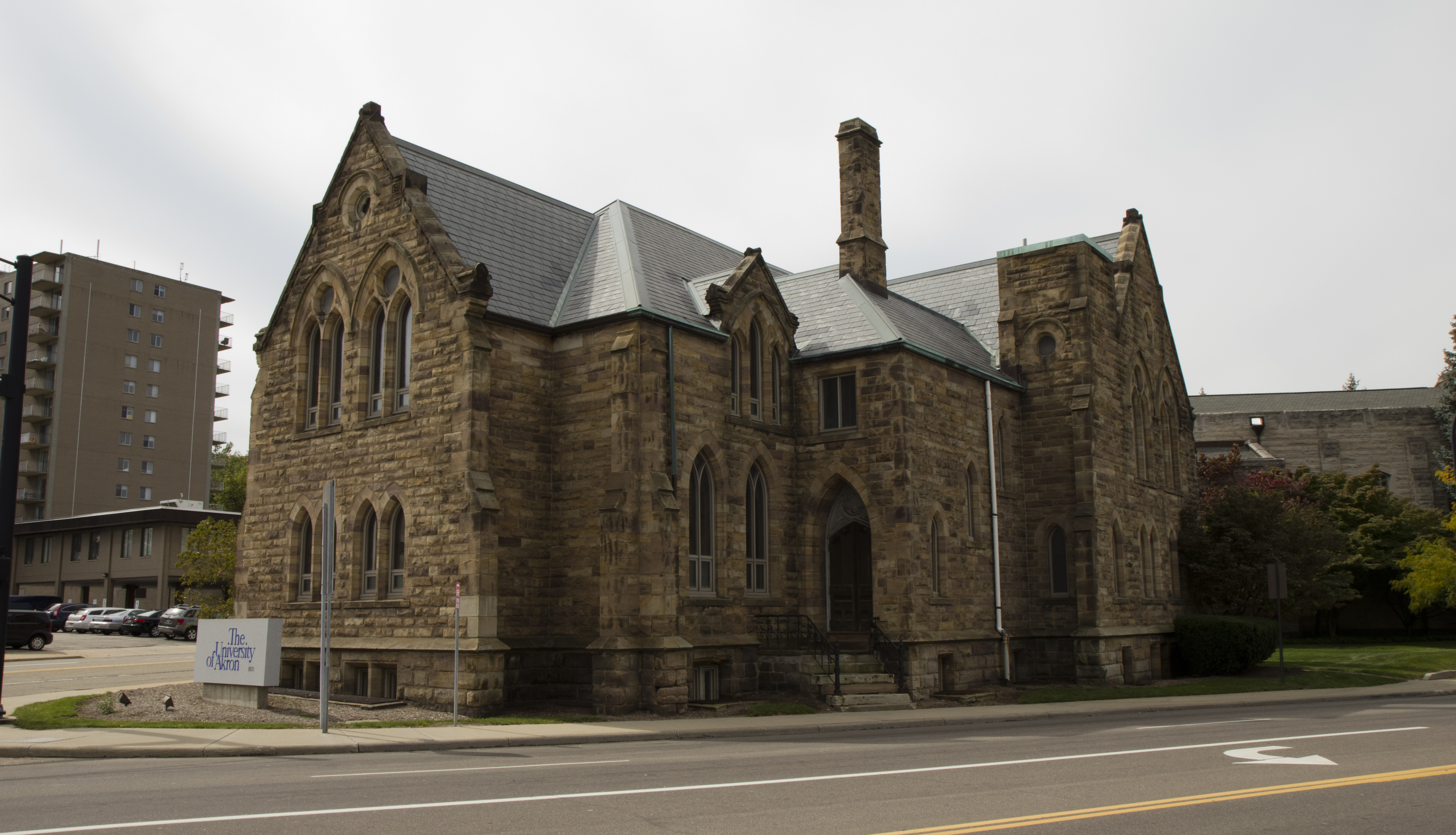 St. Paul's Sunday School and Parish House, 354 East Market Street, Akron, Summit County, Ohio - View south west showing north east face on the corner of East Market and Forge Streets.